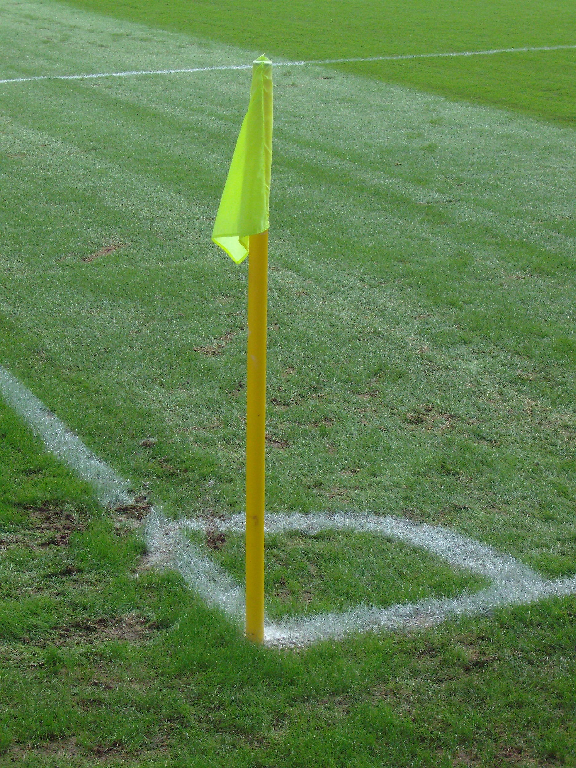 Corner flag at Impuls Arena Augsburg